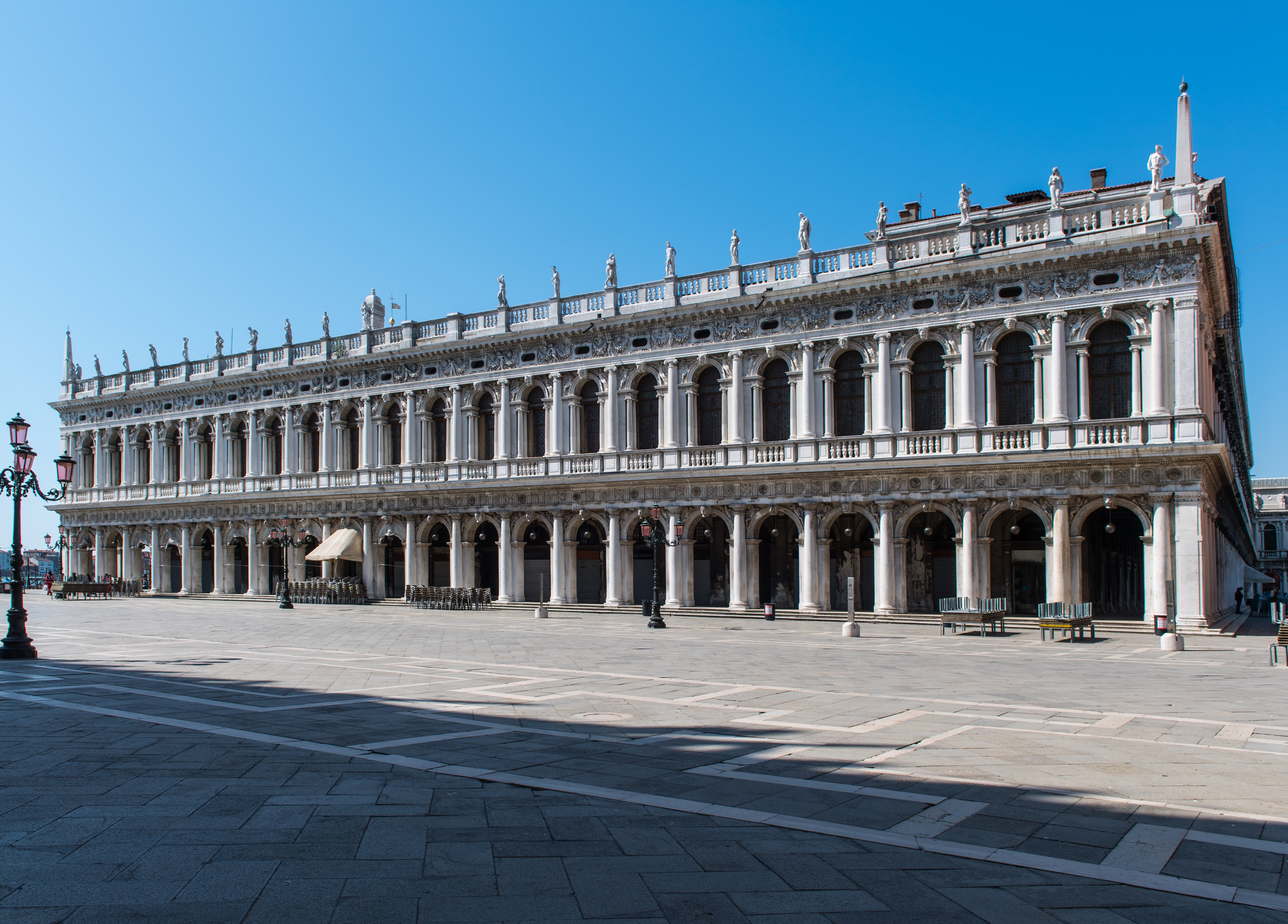 Main facade of the Marciana Library